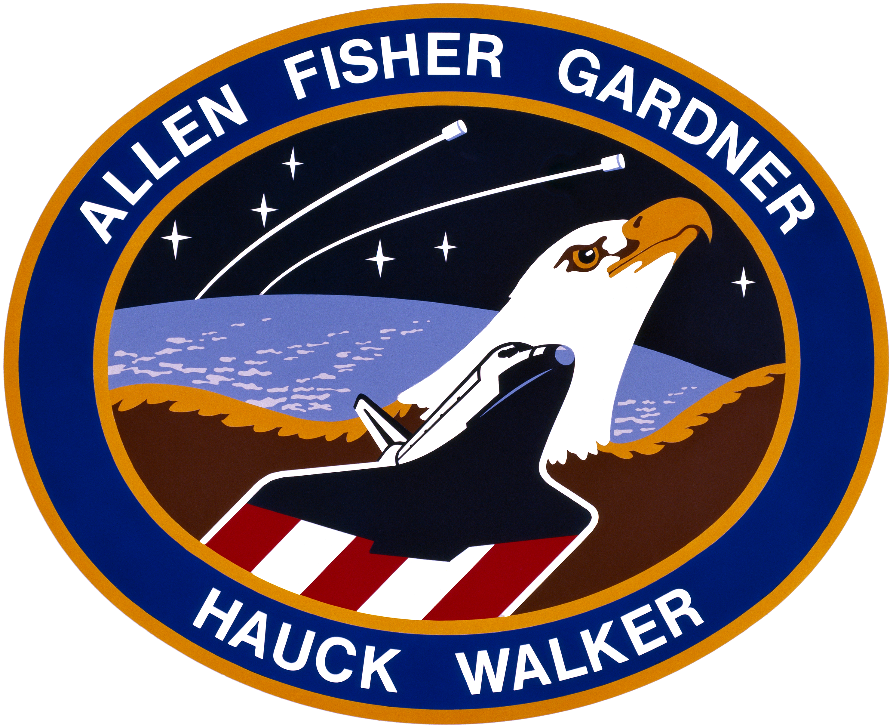 STS-51A Mission Insignia The Space Shuttle Discovery en route to Earth orbit for NASA's 51-A mission is reminiscent of a soaring Eagle. The red and white trailing stripes and the blue background, along with the presence of the Eagle, generate memories of America's 208 year-old history and traditions. The two satellites orbiting the Earth backgrounded amidst a celestial scene are a universal representation of the versatility of the Space Shuttle. White lettering against the blue border lists the surnames of the five-member crew.